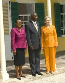 Secretary Clinton poses with Barbados Deputy Prime Minister Freundel Stuart (center) and Foreign Affairs Minister Maxine McClean (left) during a visit to George Washington House, in the Parish of St. Michael, outside Bridgetown, Barbados.